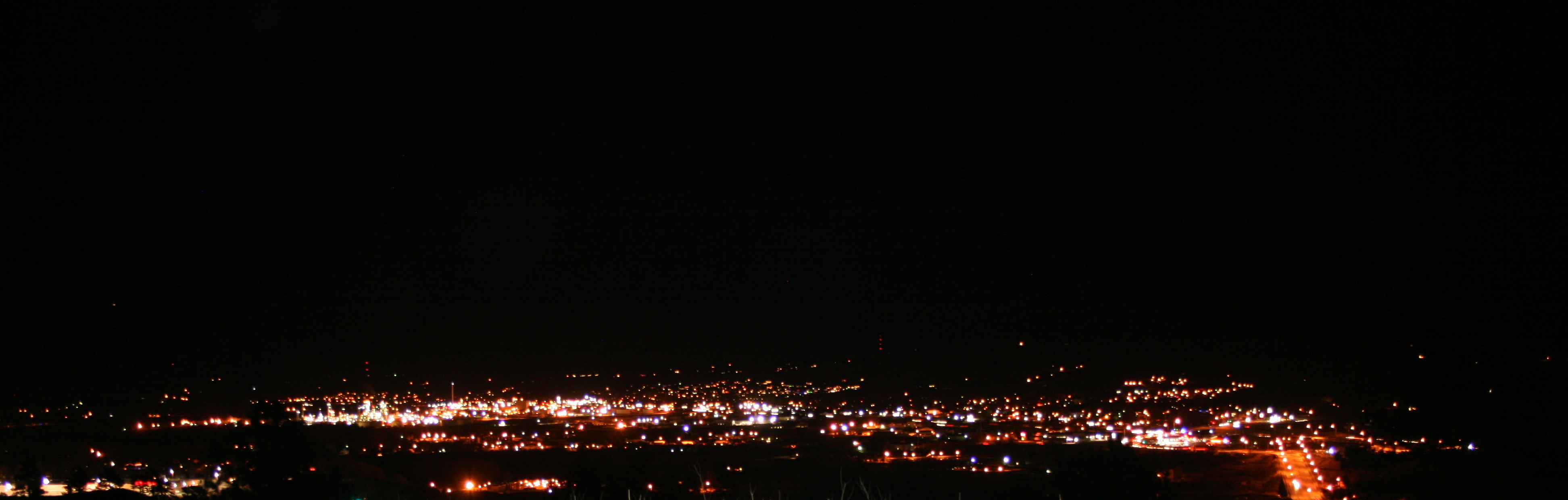 lockwood at night